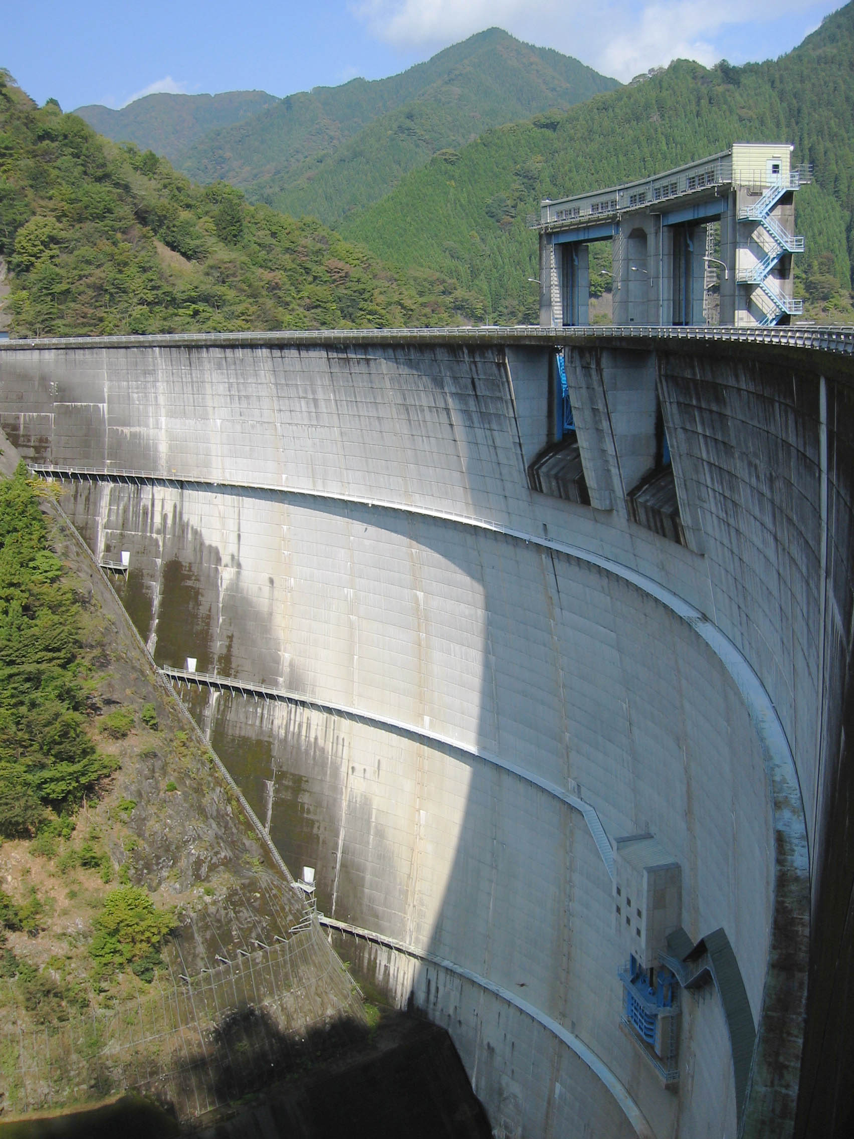 Shintoyone Dam (新豊根ダム) is a dam in Toyone village, Aichi prefecture, Japan.